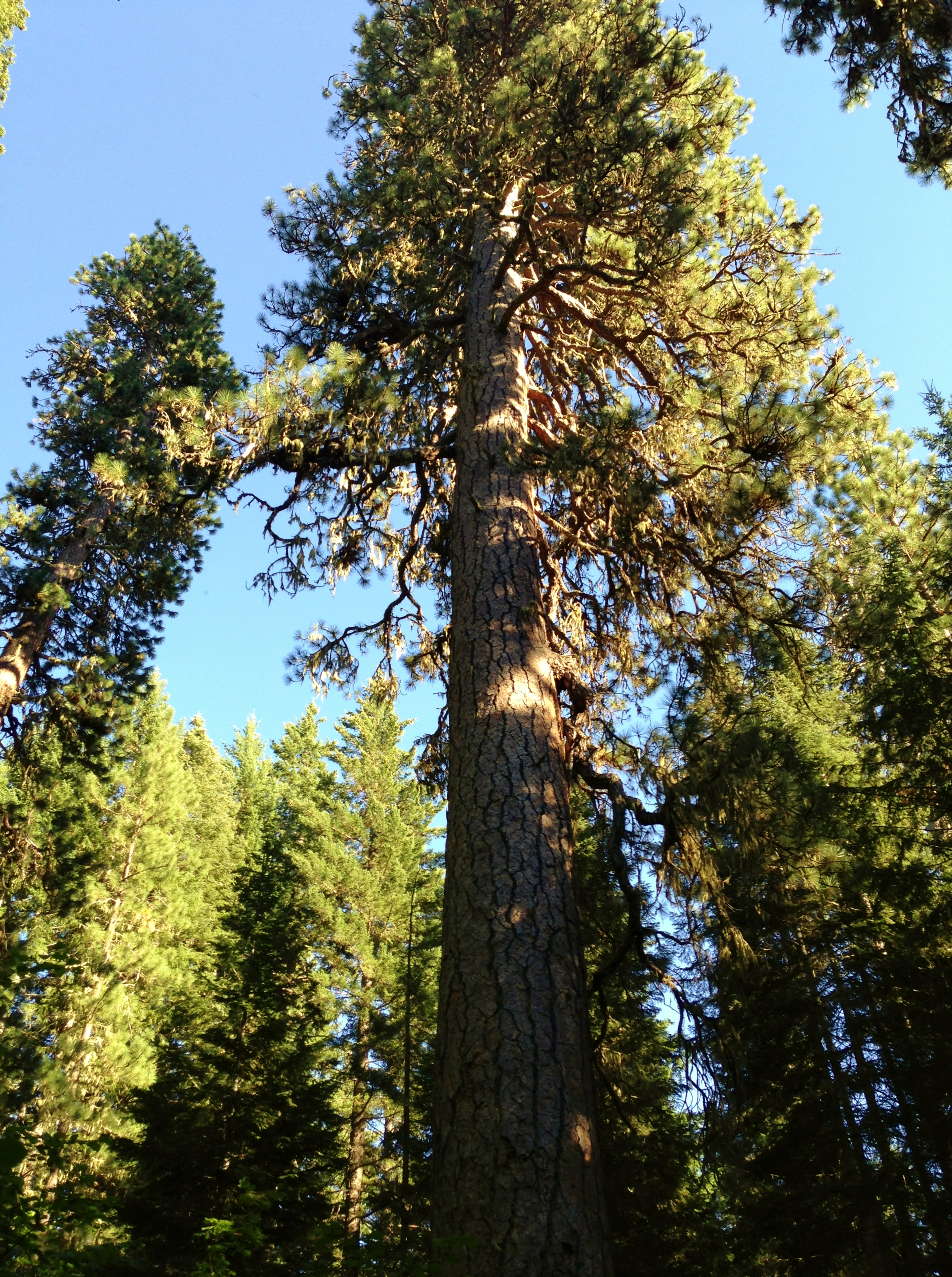 GPNF, WA